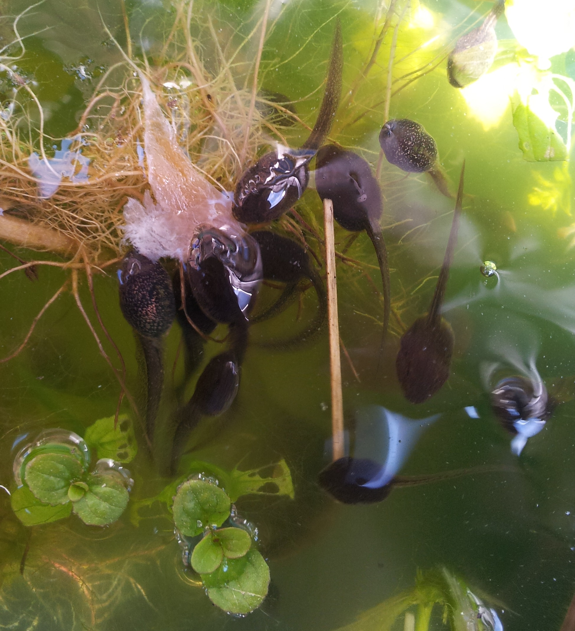 Captive common frog tadpoles eating a piece of salmon.